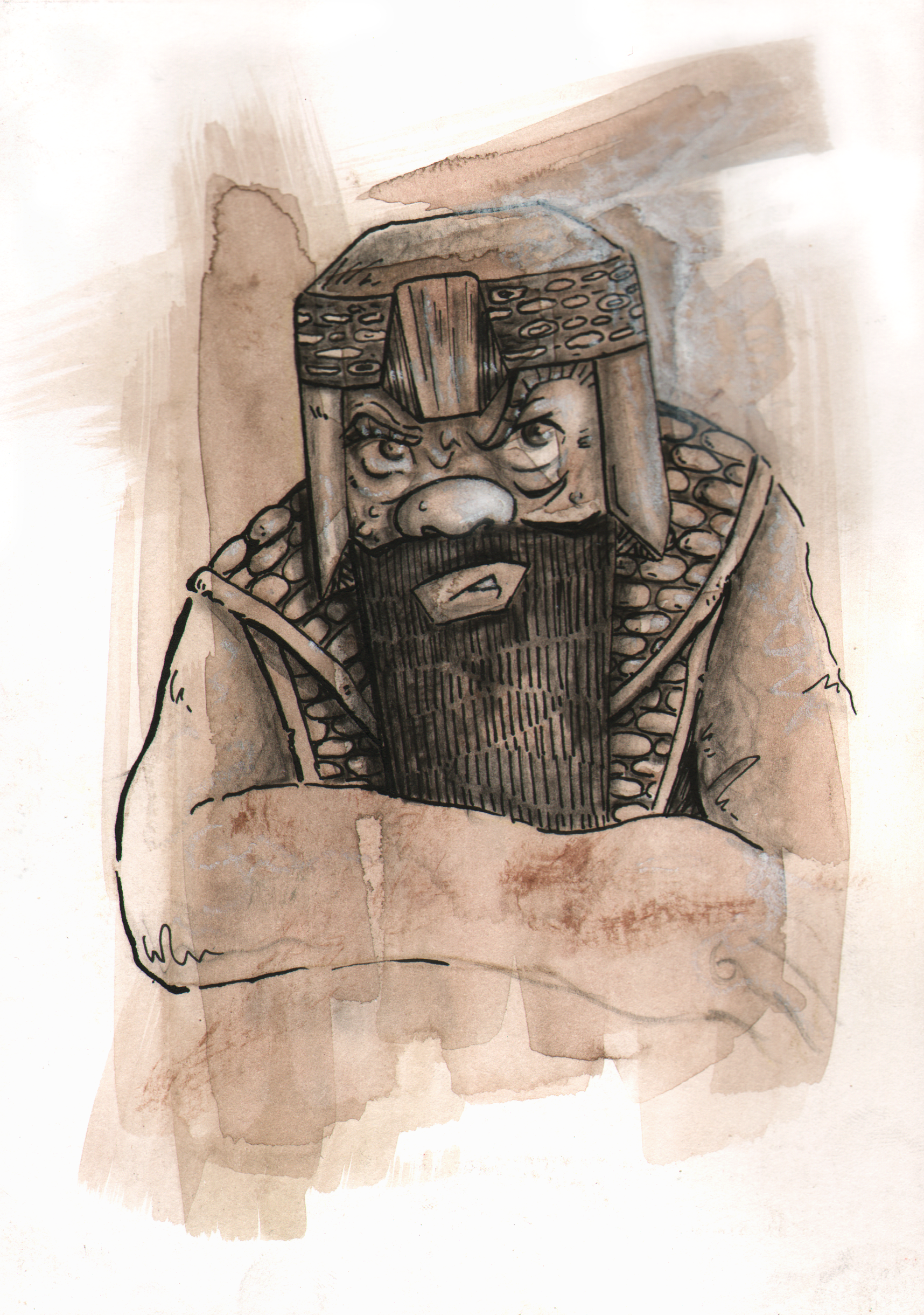 Illustration of Gimli, one of the characters in the Lord of the rings.